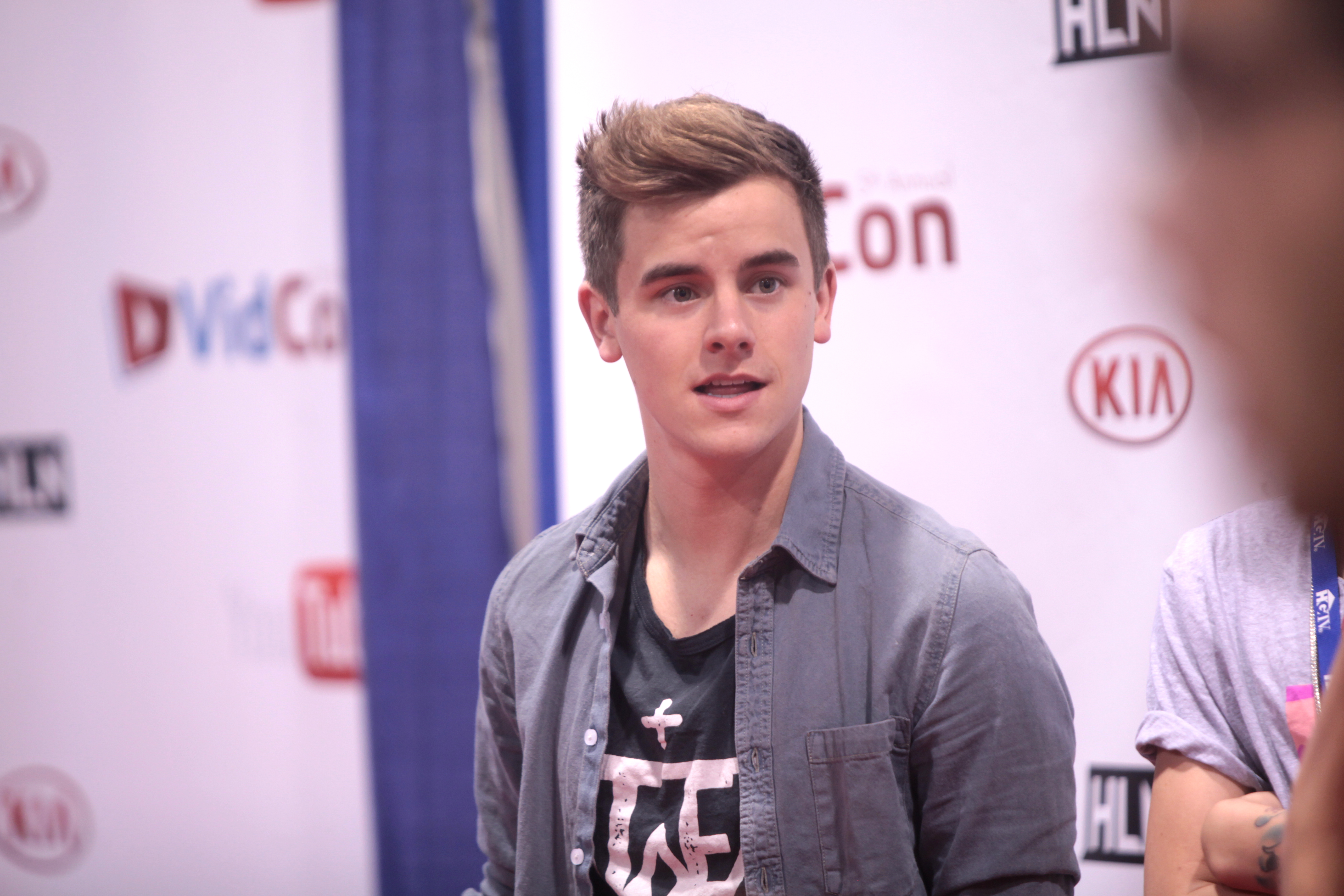 Connor Franta at the 2014 VidCon at the Anaheim Convention Center in Anaheim, California.